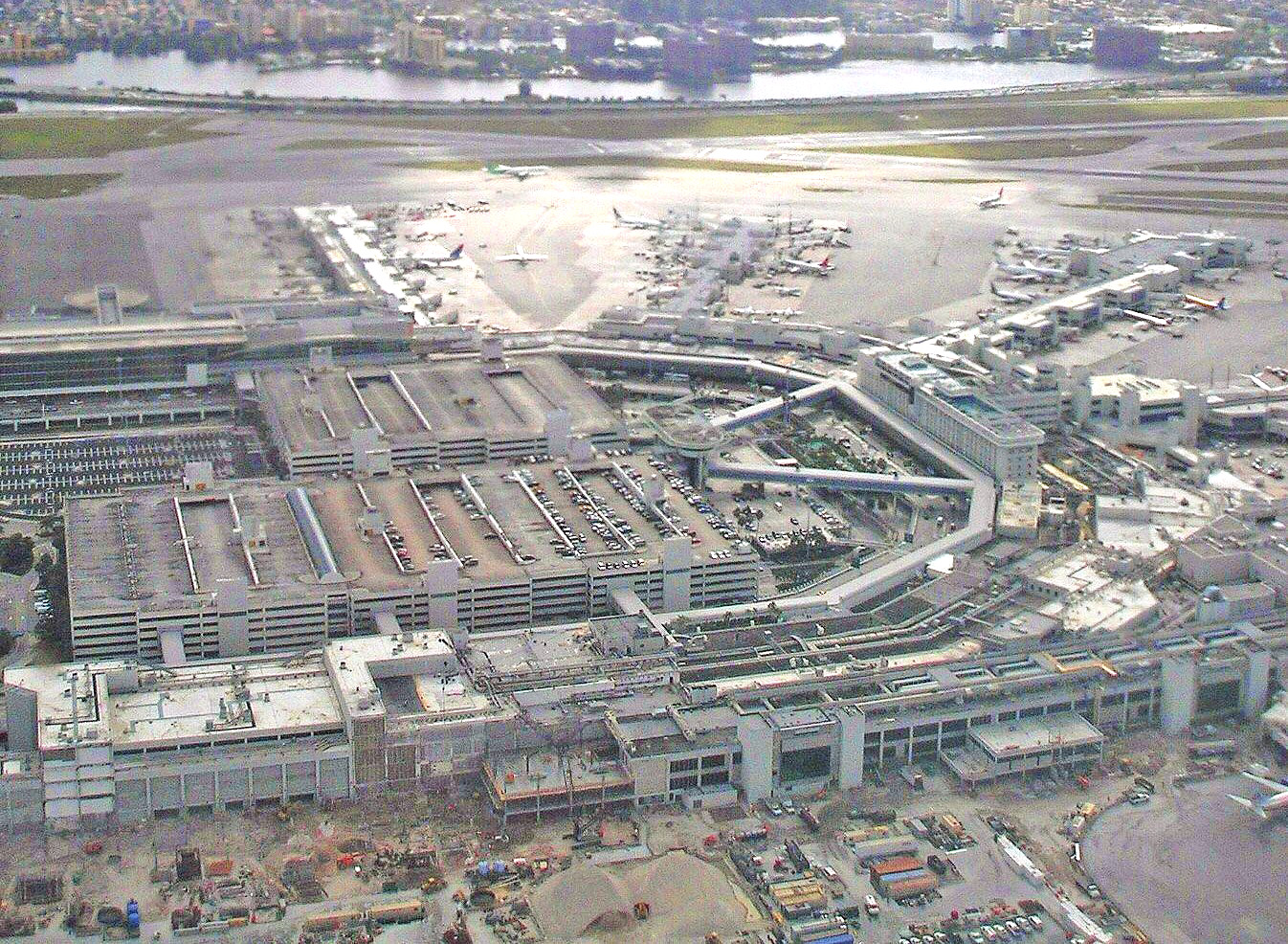 Aerial view of Miami International Airport